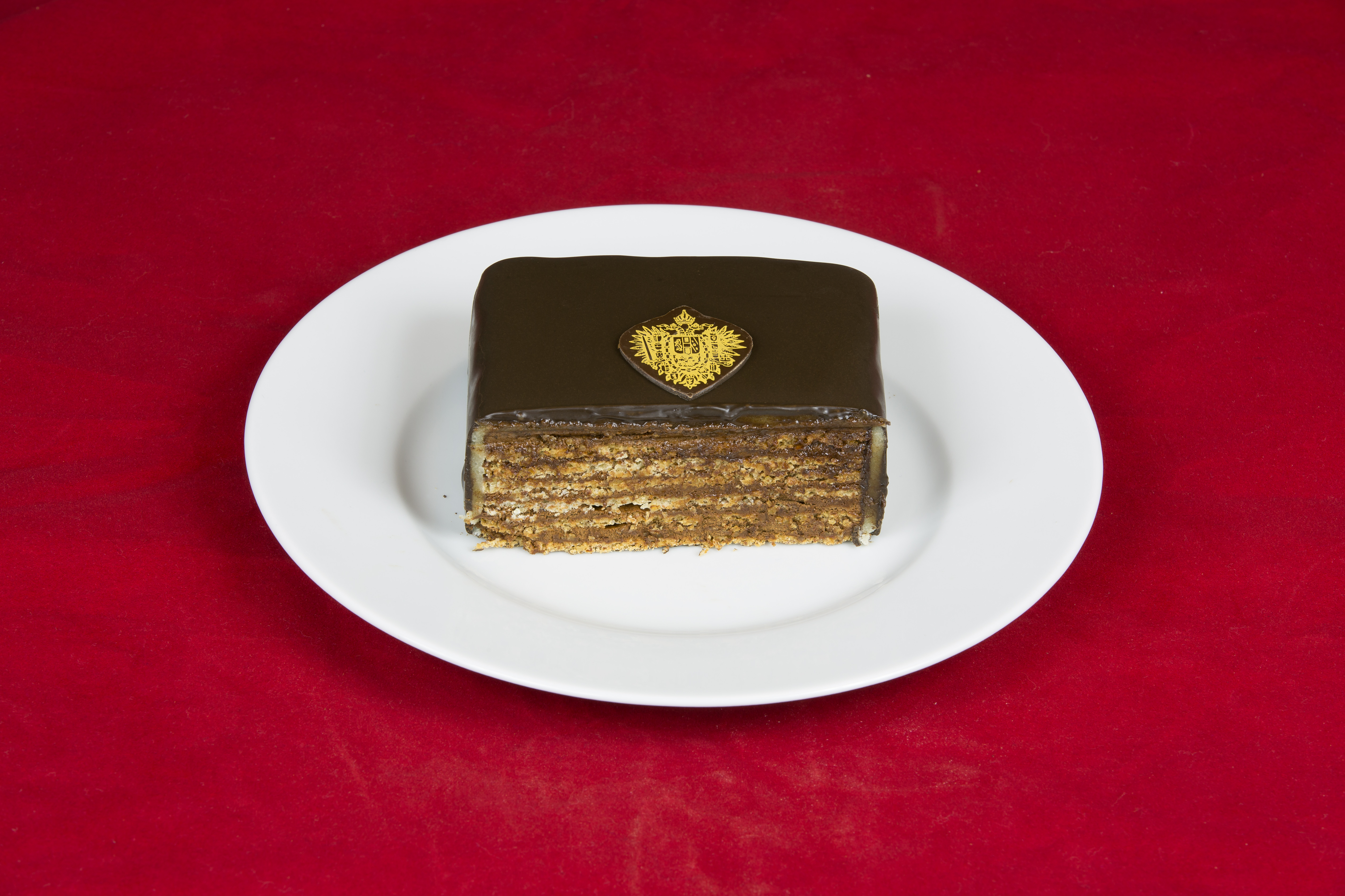 Hotel Imperial-Torte.